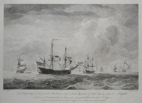 Voyage of the Glorioso, 1747. Correct description: The King George disabled, and other Privateers in chase, with the Appearance of His Majesty's Ship the Russell at the time the Dartmouth was blown up, engaging the Gloriosa Octr 9th 1748. Brooking Pinxt. Boydell Sculpt. Publish'd according to Act of Parliament 1753, & Sold by J. Boydell Engraver, at the Unicorn the Corner of Queen Street Cheapside. Engraving 465 x 330mm. The Spanish 74-gun ship, 'Glorioso', was on her way to Cadiz from Ferrol, where she had landed treasure, when she was attacked by a number of English ships including the 'Royal family' squadron of privateers commanded by Commodore Walker. She was engaged by several ships of inferior force including Walker's privateer the 'King George', 32 guns, which kept up a close but unequal struggle for several hours, and the 'Dartmouth', 50 guns, which blew up. After a five-hour battle, the 'Glorioso' was finally captured by the 'Russell', 80 guns, which was returning half-manned from the Mediterranean. Charles Brooking (1723–59) Unde the patronage of Taylor White and commission from him for the Foundling Hosptial, Brooking became a most celebrated marine painter whose pupils may well have included Serres and Swaine. Parker:51a. [Ref: 978]